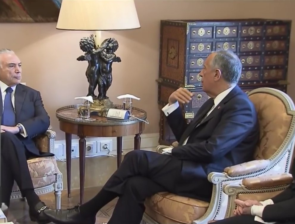 President of Portugal Marcelo Rebelo de Sousa talking with President of Brazil Michel Temer, in the President's Office at Belém Palace, 10 January 2017.